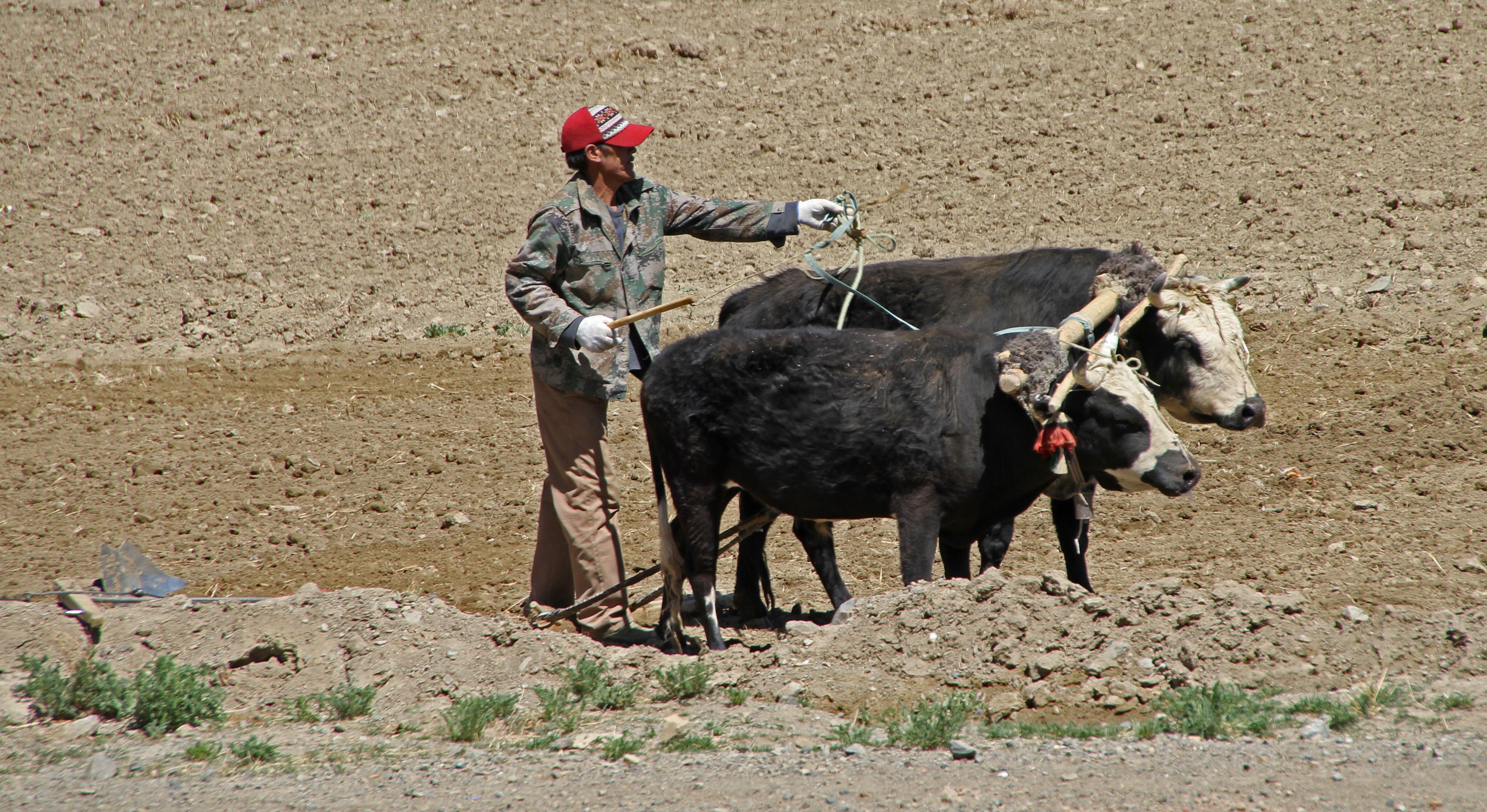 Agriculture in Xigazê prefecture in Tibet